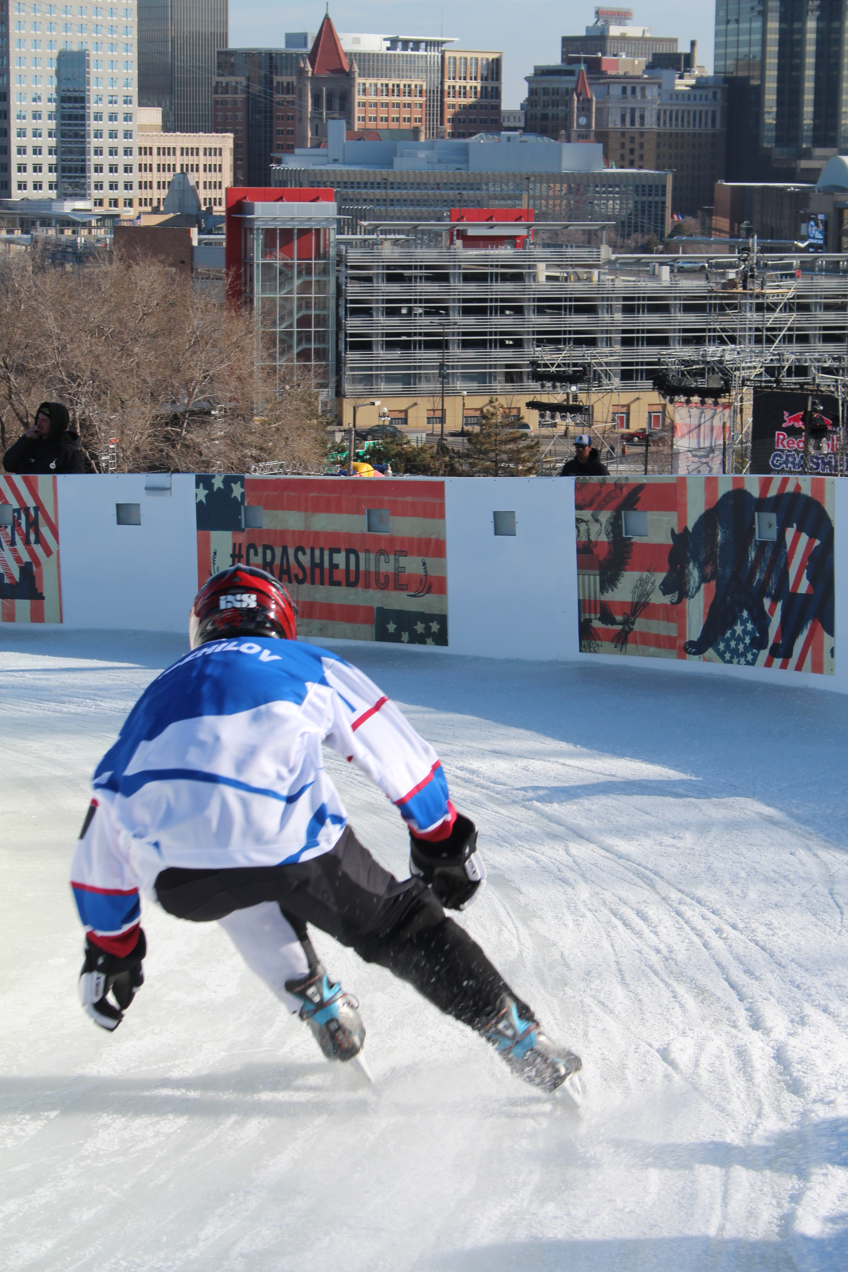 Crashed Ice skater with downtown St. Paul, Minnesota in the background. Taken in 2015.